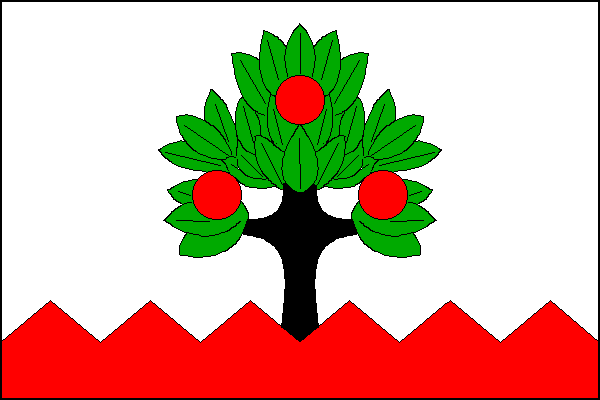 Municipal flag of Jablůnka village, Vsetín District, Czech Republic.